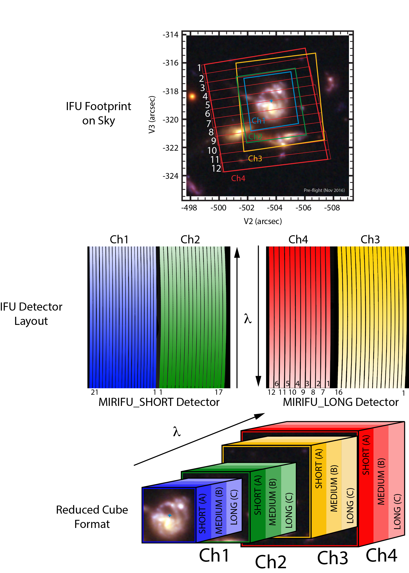 For explaination, see here